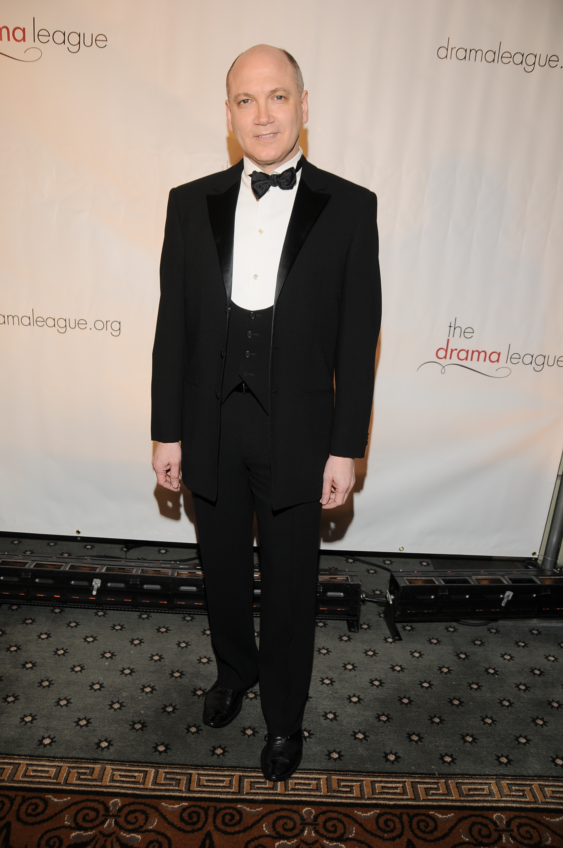 Charles Busch at the Drama League Benefit Gala Honoring Angela Lansbury, February 8, 2010